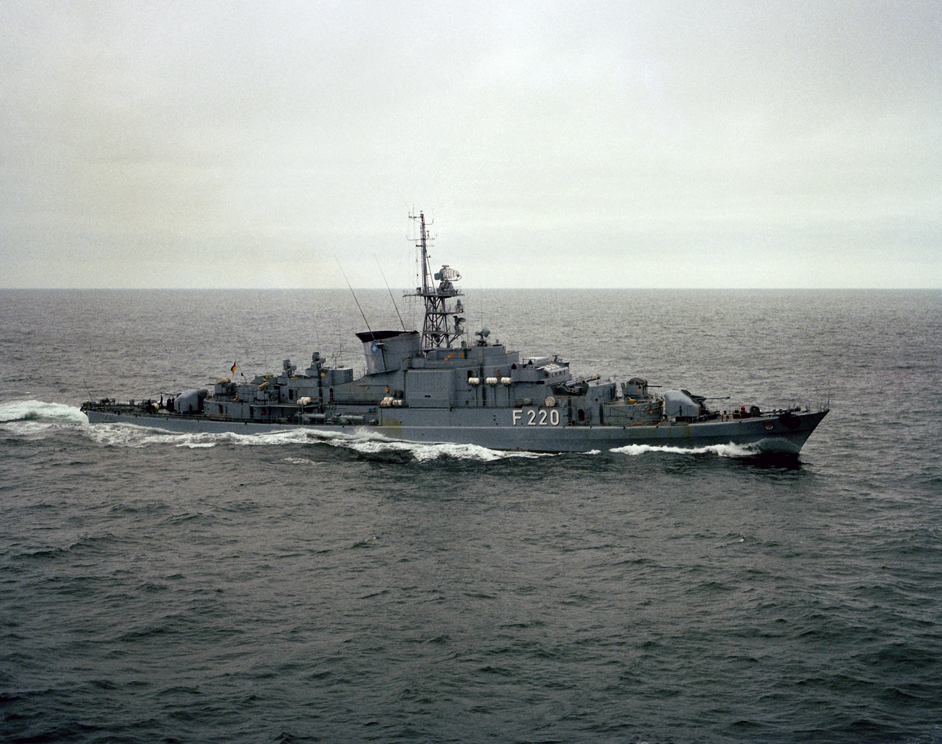 A starboard bow view of the West German frigate Köln (F 220) underway in 1982.